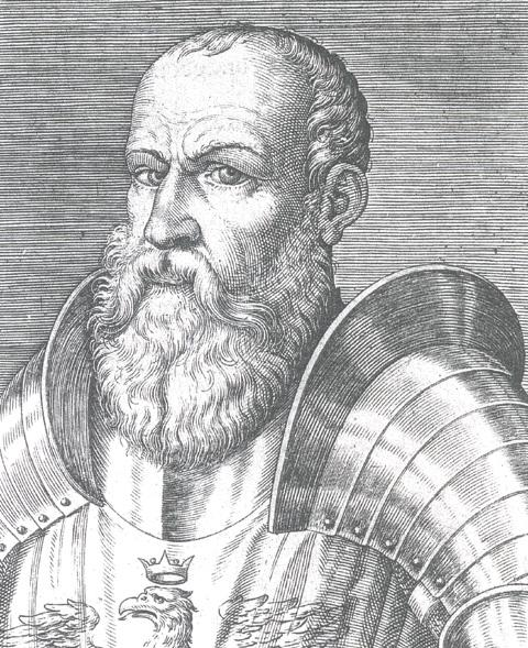 Woodcut, 16th Century Florence